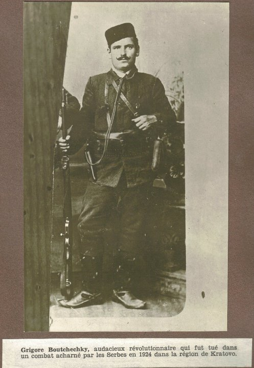 Grigor Buchevski from IMARO